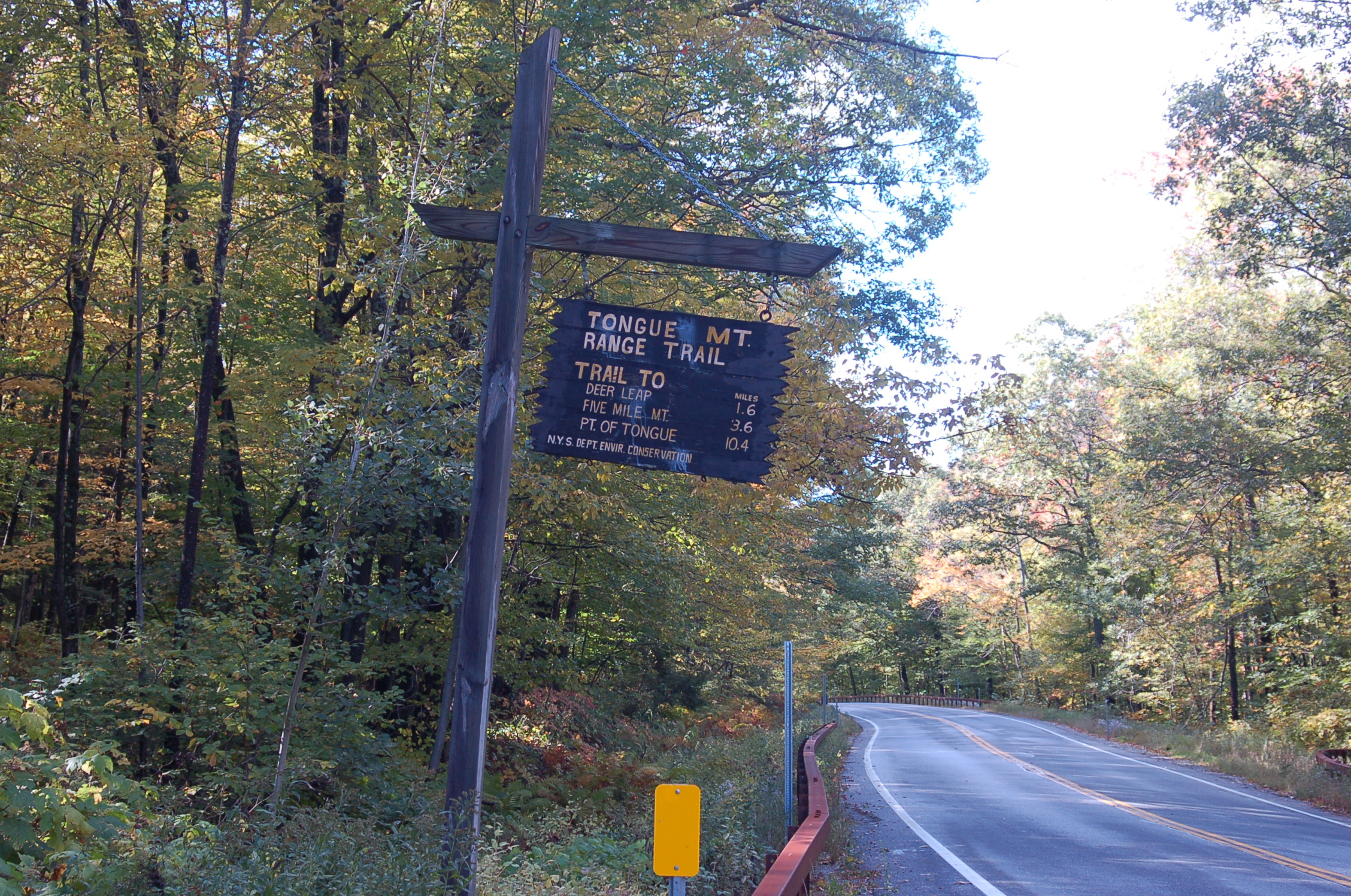 Tongue Range trailhead, taken by Geotek Sept 06